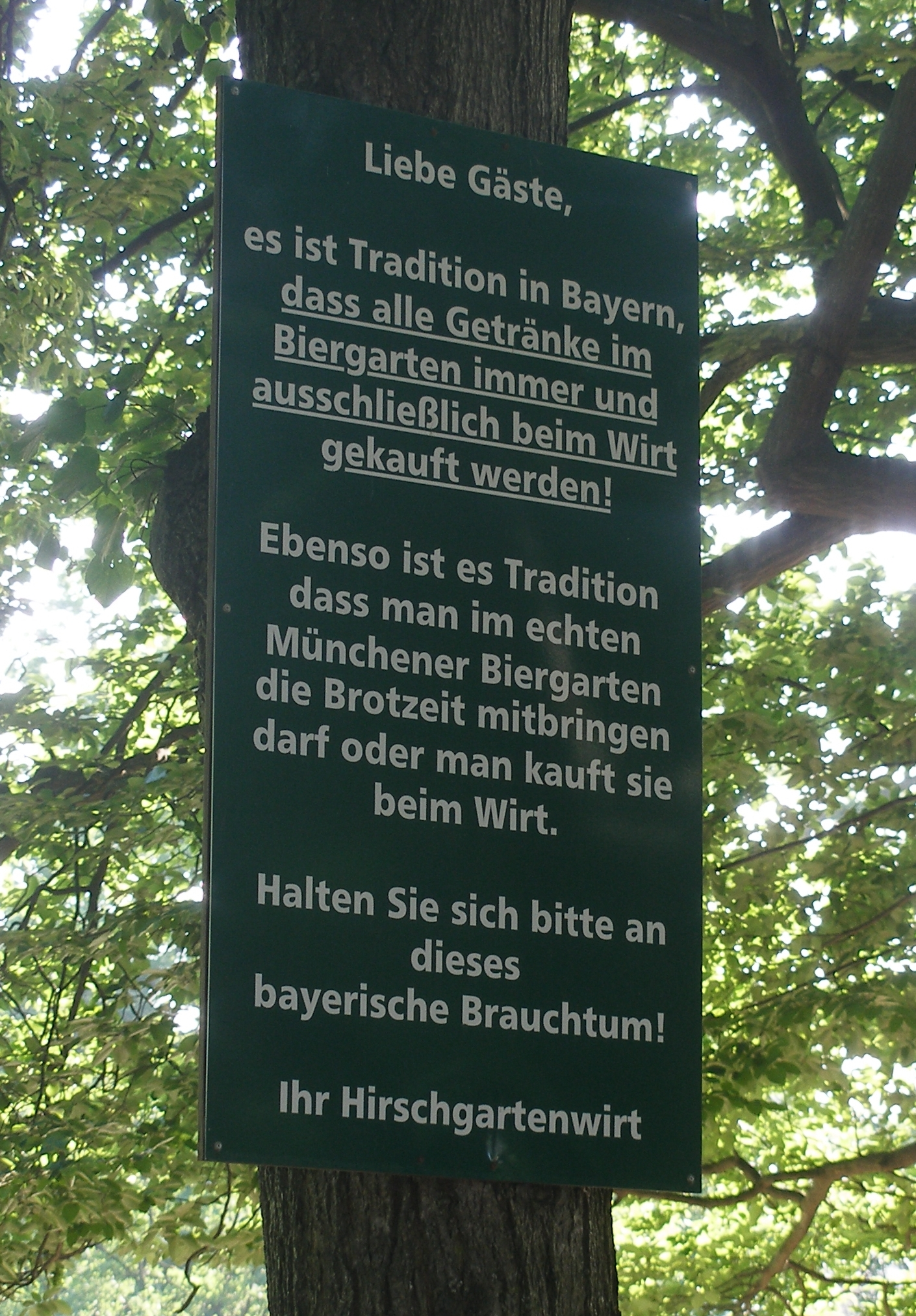 The sign posted here reads: "Dear guests, it is a tradition in Bavaria, that all beverages in the beer garden are always and exclusively bought from the landlord. Likewise, it is a tradition in a genuine Munich beer garden that people can bring their own food or can buy it here from the innkeeper. Please adhere to this Bavarian customs. Your innkeeper at Hirschgarten."